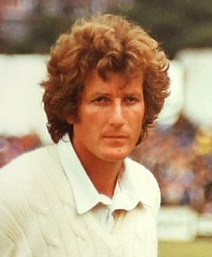 Bob Willis in the field during the early 1980s, probably 1981. Cropped reproduction of original print.